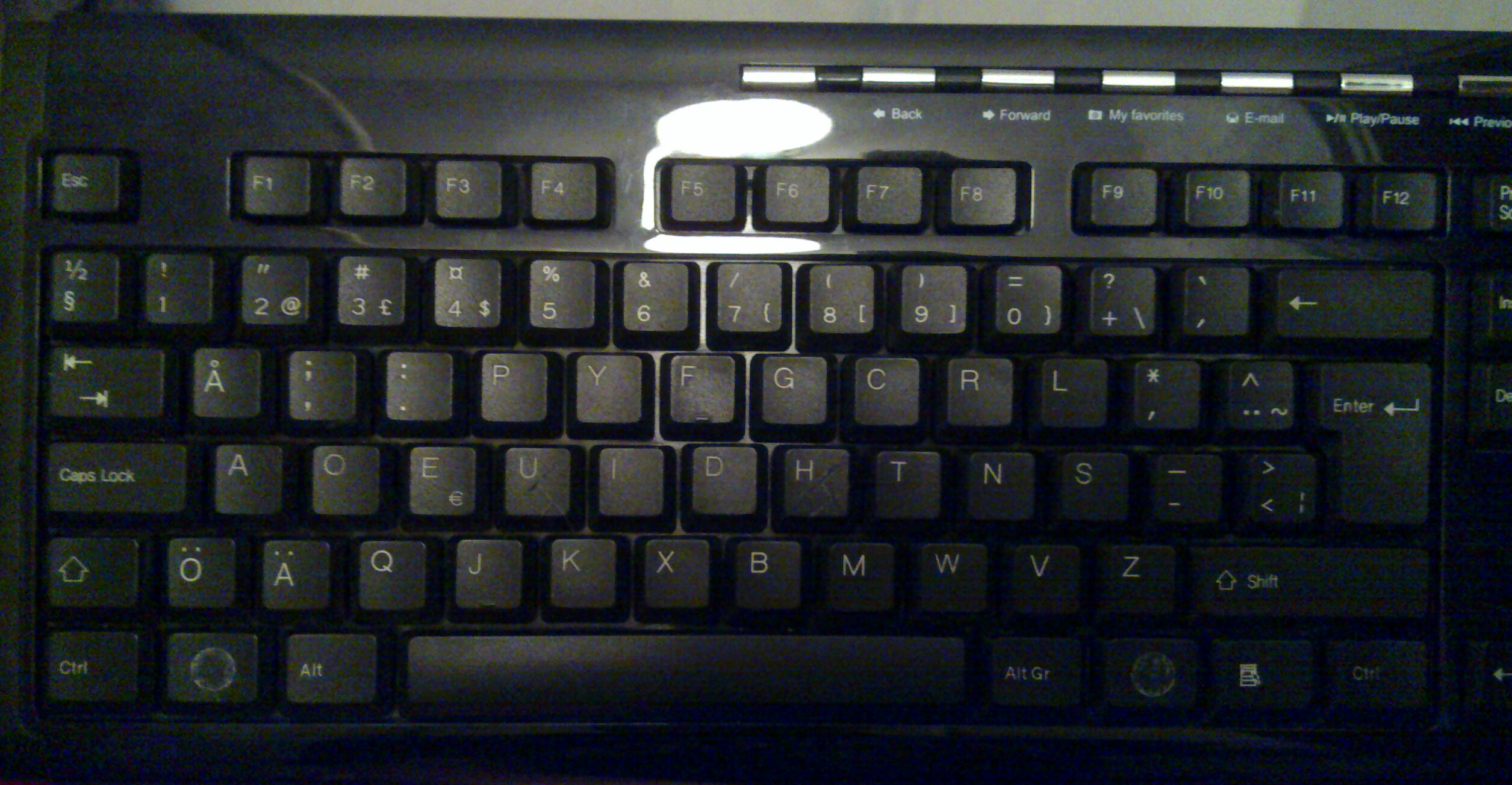 Just a picture of my keyboard